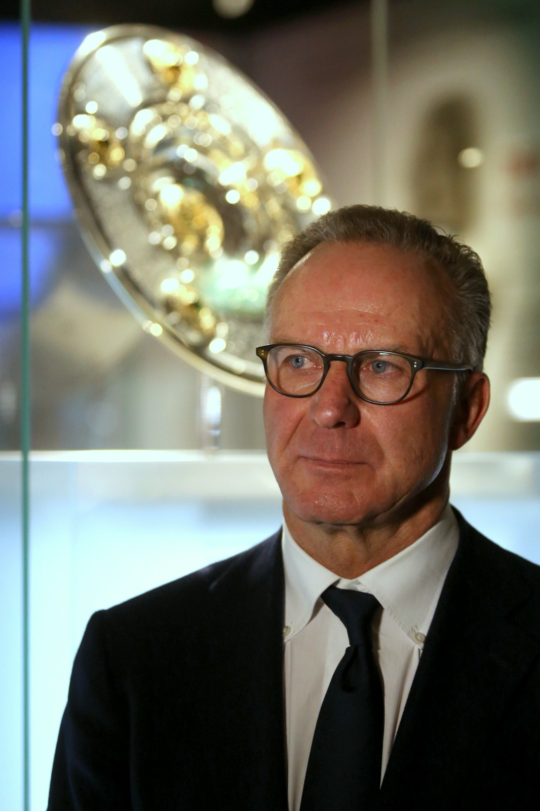 Karl-Heinz Rummenigge, CEO of FC Bayern Muenchen, at Allianz Arena (FC Bayern Erlebniswelt) on February 6, 2015 in Munich, Germany